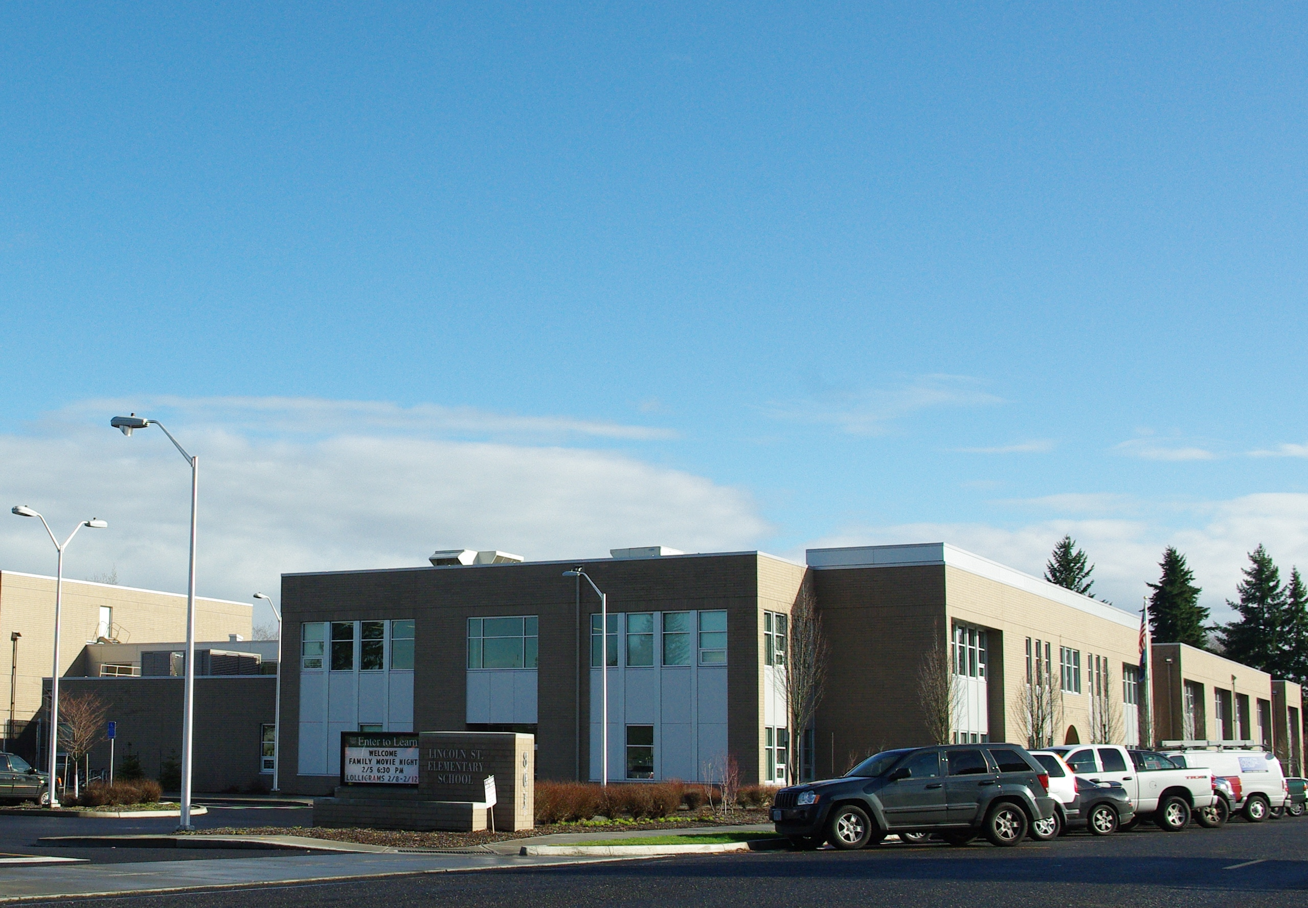 Lincoln Street Elementary school in Downtown Hillsboro, Oregon.